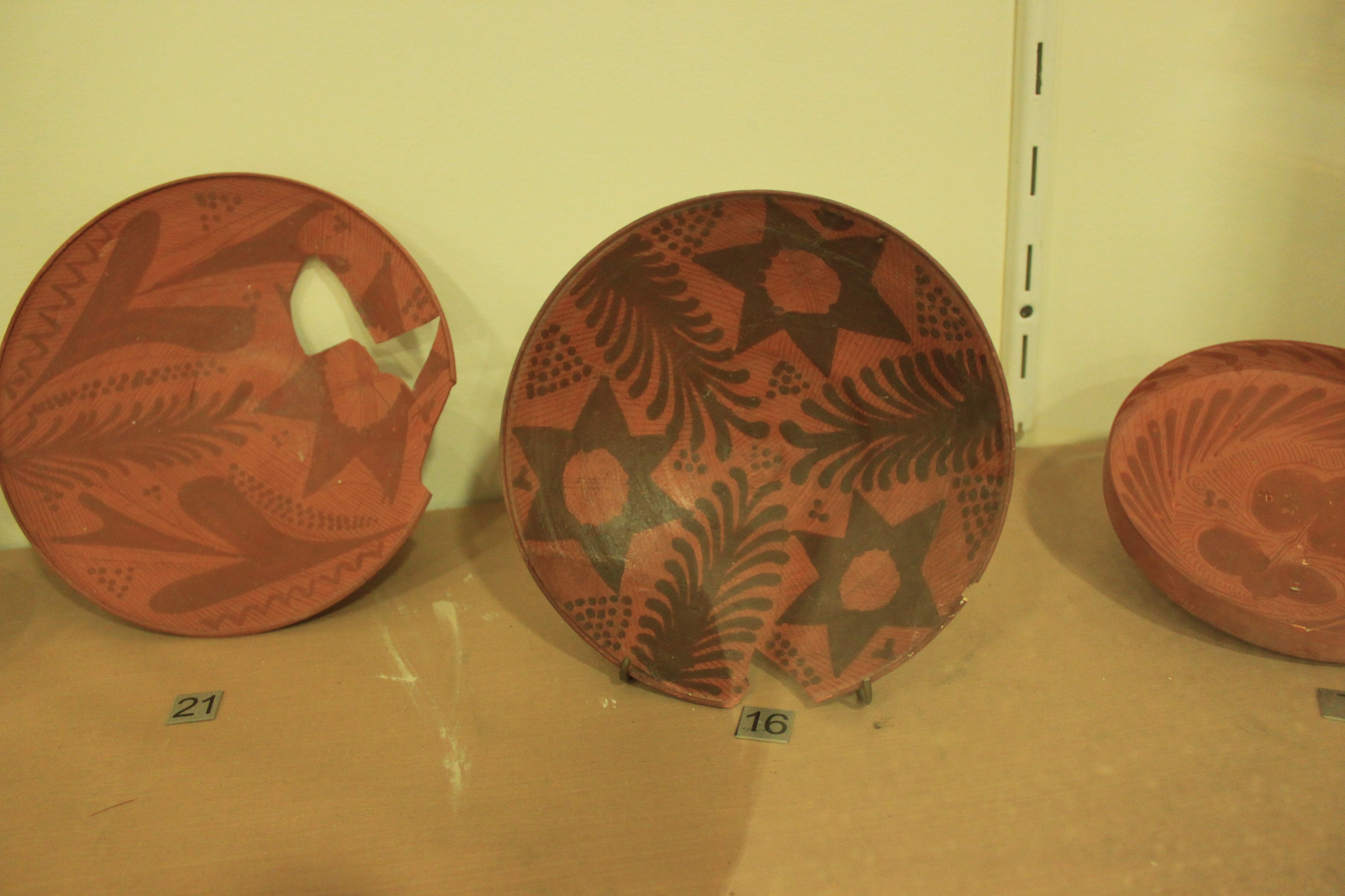 Nabataean pottery, from Petra Archaeological Museum